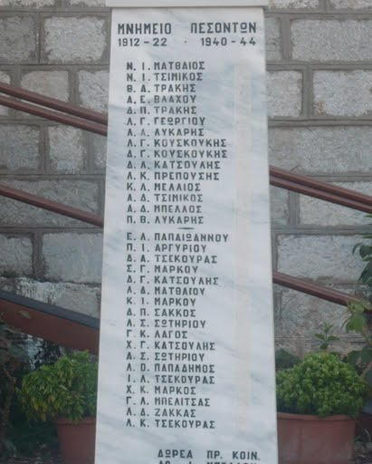 Memorial site in Steiri, Boieotia, Greece, which commemorates the fallen villagers from 1912 to 1922 and from 1940 to 1944